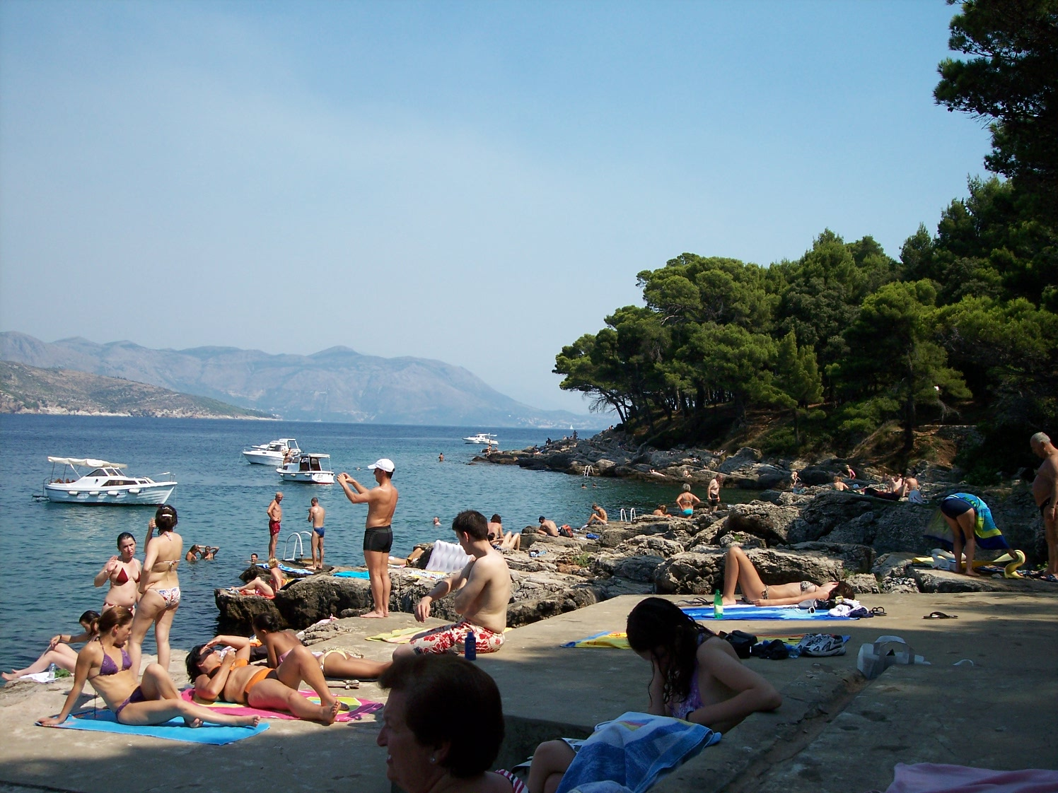 Lokrum isle (Croatia)